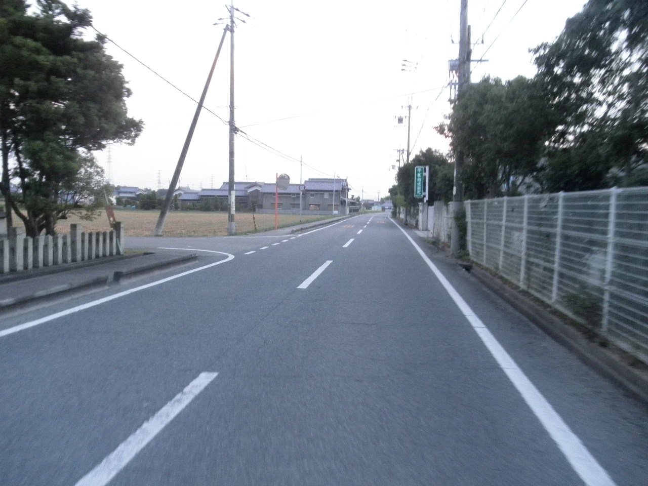 Besshotown Okiharu Mikicity Hyogopref Hyogoprefectural 513 Miki belt Line.